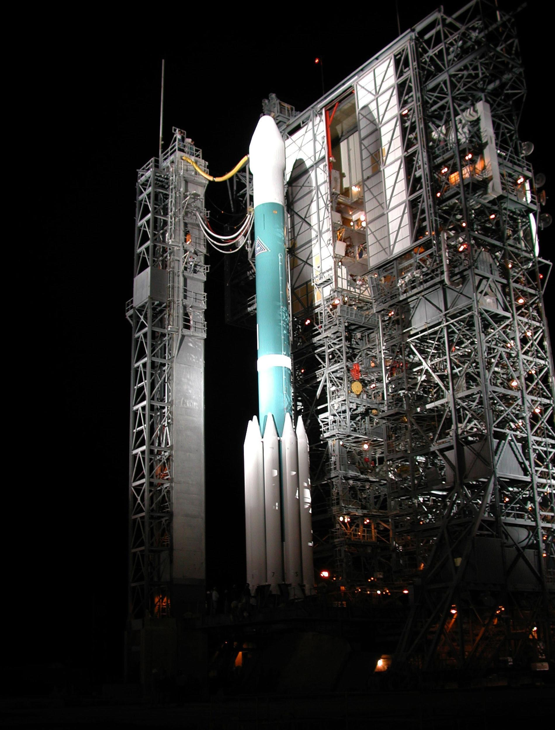 On Launch Complex 17, Cape Canaveral Air Force Station, the tower pulls away from the Boeing Delta II rocket carrying the 2001 Mars Odyssey spacecraft. Liftoff is scheduled for 11:02 a.m. EDT from Launch Complex 17-A at Cape Canaveral Air Force Station. After an approximate 7-month journey, Mars Odyssey will orbit the planet Mars. The spacecraft, built by Lockheed Martin Space Systems for the Jet Propulsion Laboratory, will map the Martian surface looking for geological features that could indicate the presence of water, now or in the past. Science gathered by three science instruments on board will be key to future missions to Mars, including orbital reconnaissance, lander and human missions.